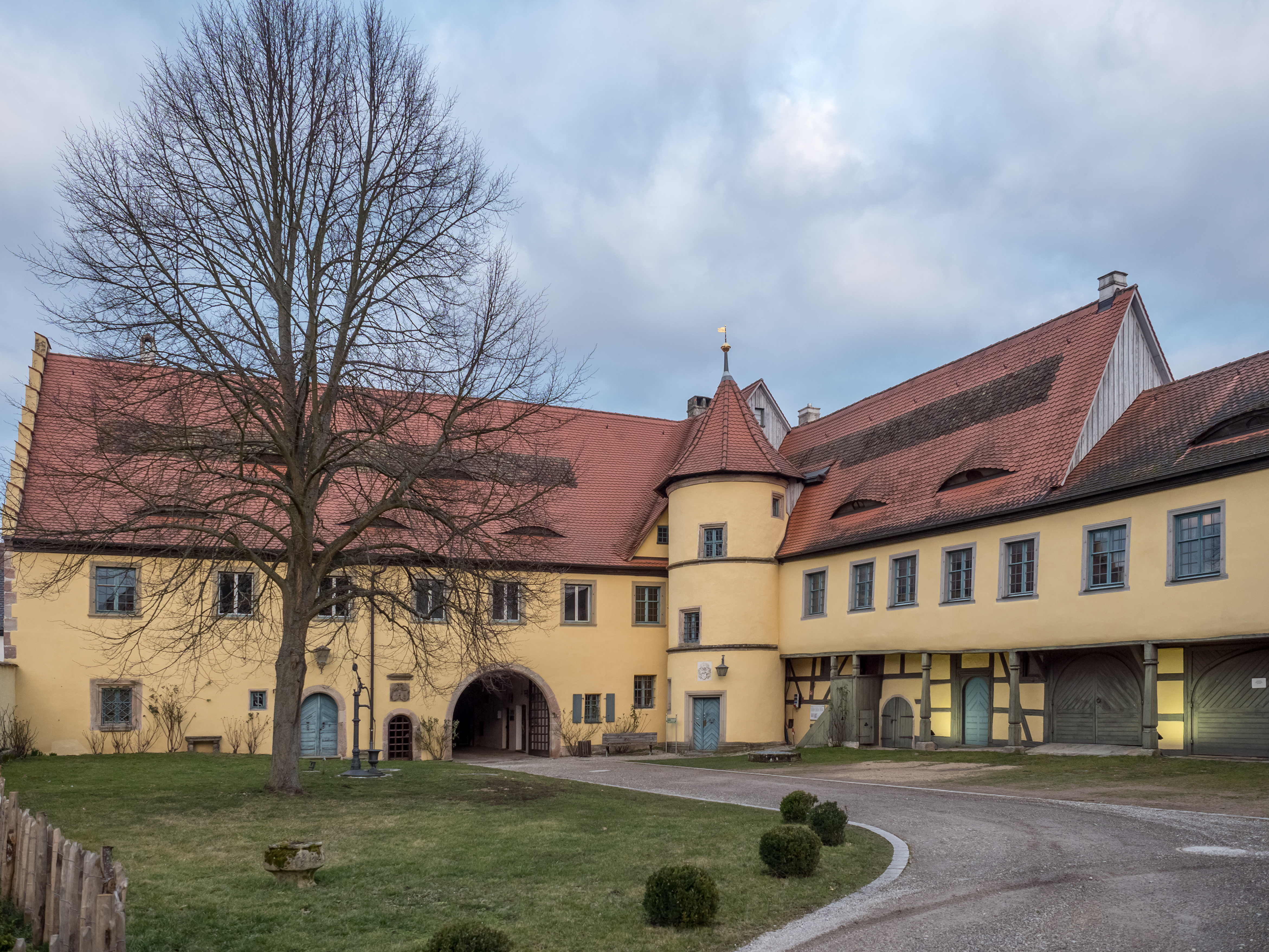 Adelsdorfer Castle, south side